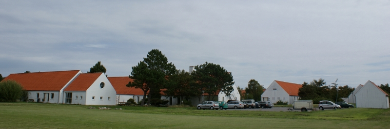 Limfjordsskolen. Some of the buildings.